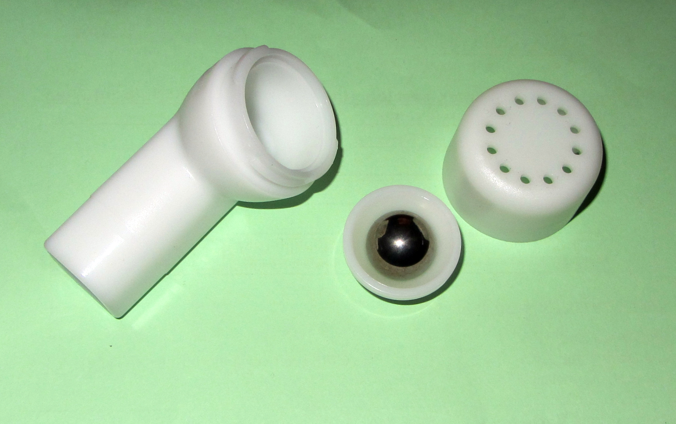 Flutter VRP1 disassembled